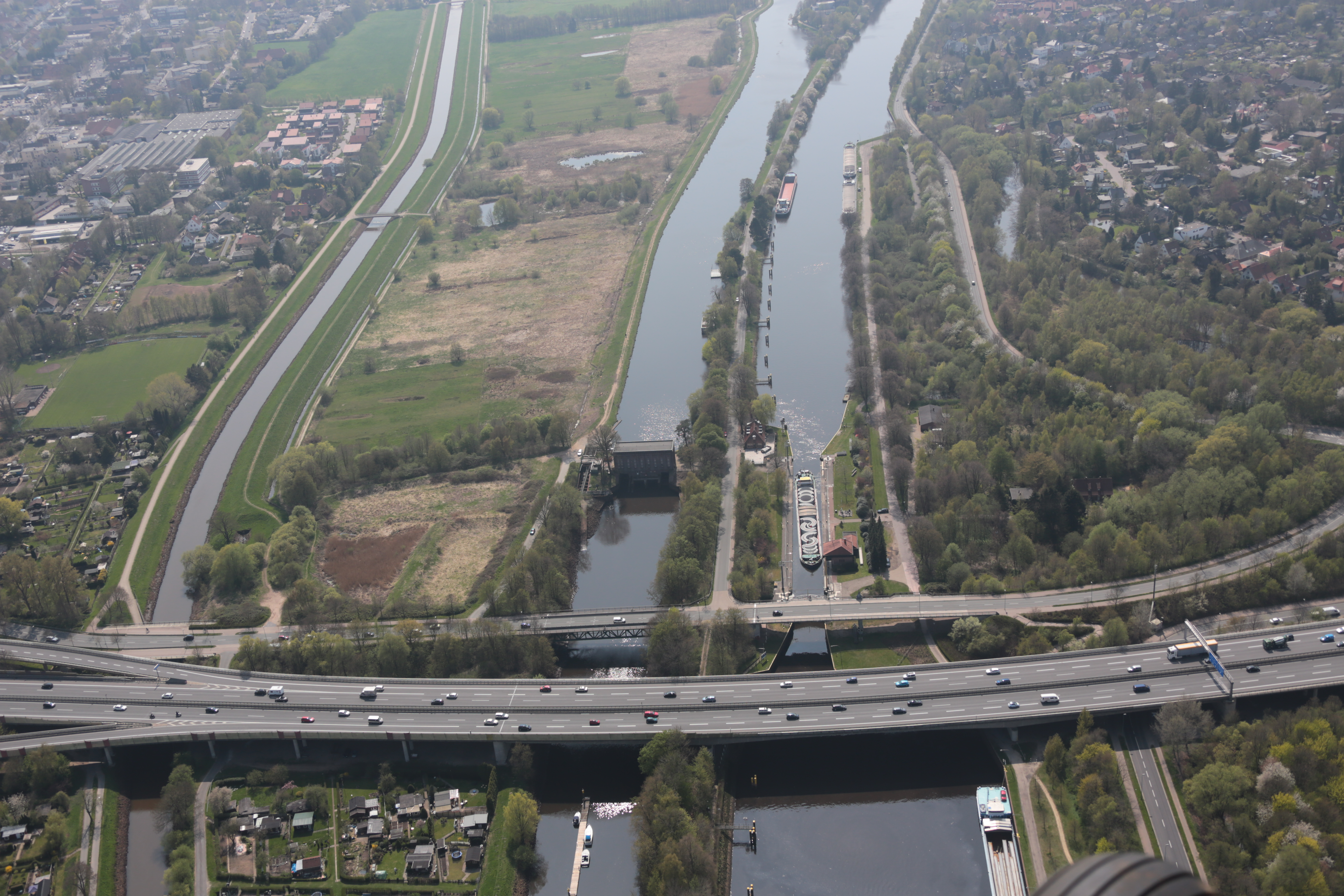 Fotoflug von Nordholz-Spieka nach Oldenburg und Papenburg This photo was taken by Alchemist-hp. If you use one of my photos, an email (account needed) or a message or direct to: my email account would be greatly appreciated. Please note the license terms. Other licensing terms can get discussed, too. This file is copyrighted and has been released under a license which is incompatible with Facebook's licensing terms. It is not permitted to upload this file to Facebook.